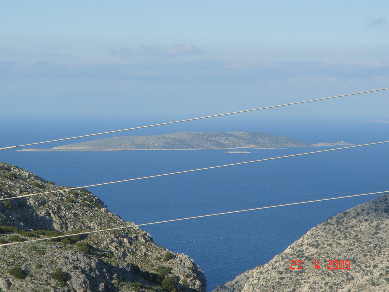 Kalolimnos Islet (the small islet infront is Prasonisi), photo taken from Kalymnos